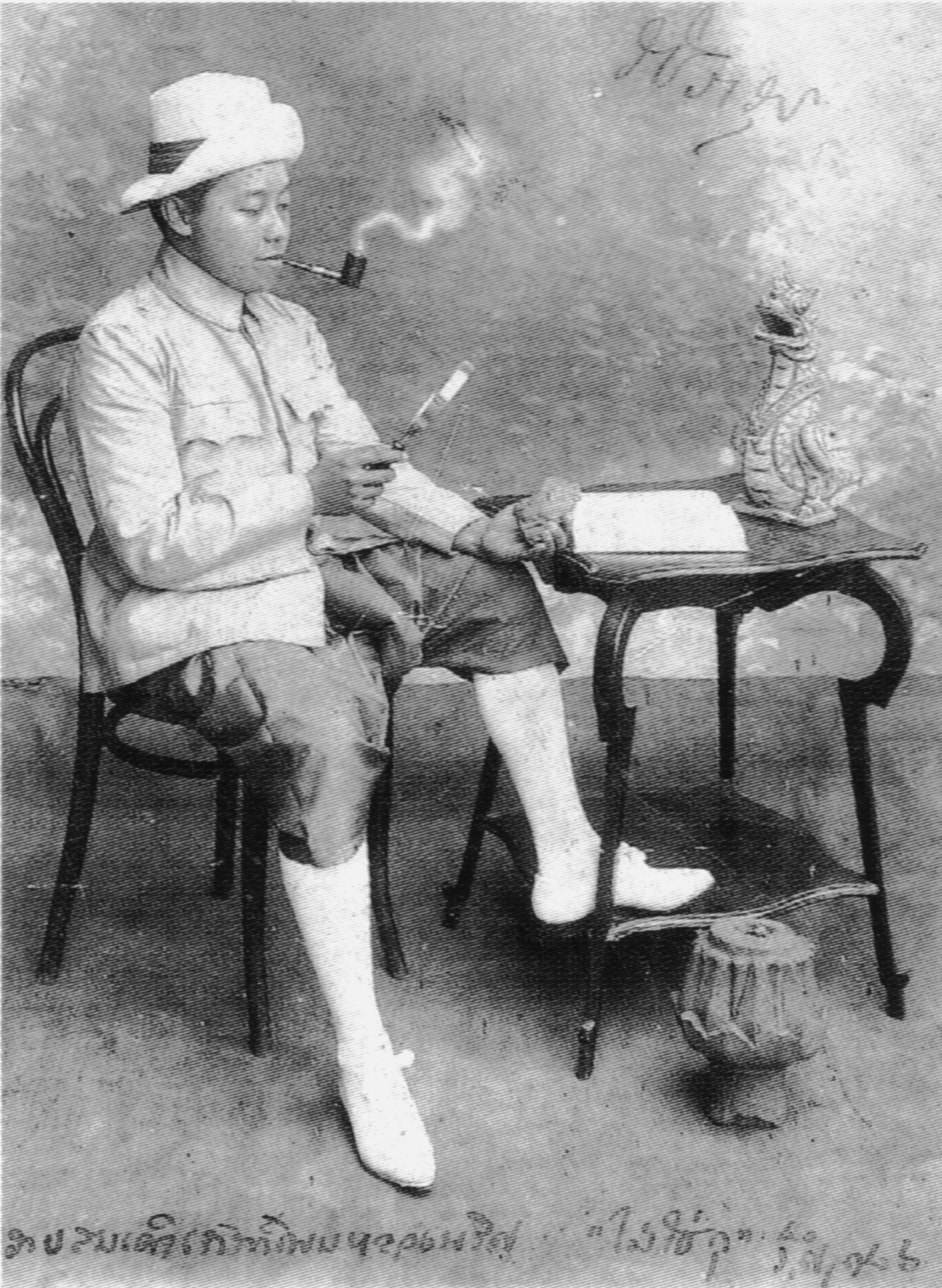 Portrait photograph of King Vajiravudh of Siam, now Thailand